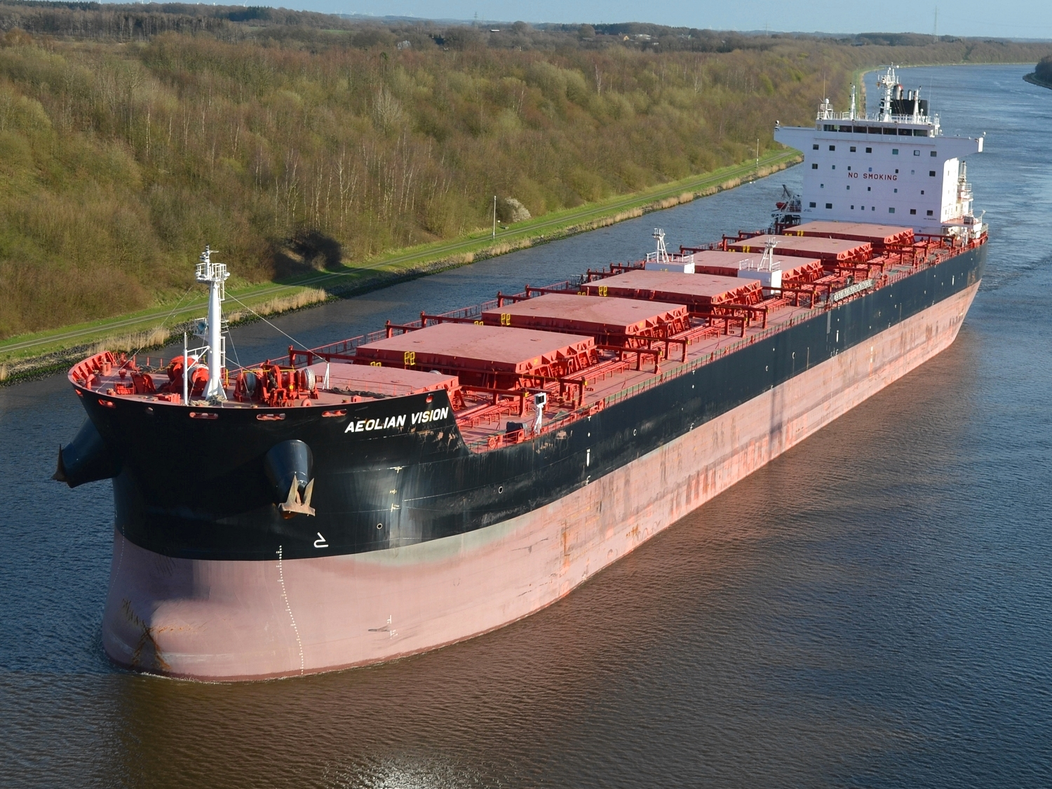 Bulk carrier AEOLIAN VISION (IMO 9483554) built at STX Offshore & Shipbuilding, Jinhae, for Windglory Maritime Ltd, Piraeus (yard № 2063, launched: 24-10-2010, completed: 26-01-2011); Kiel Canal, 15-04-2012.